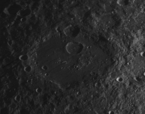 Oblique view of Schwarzschild, on the moon.